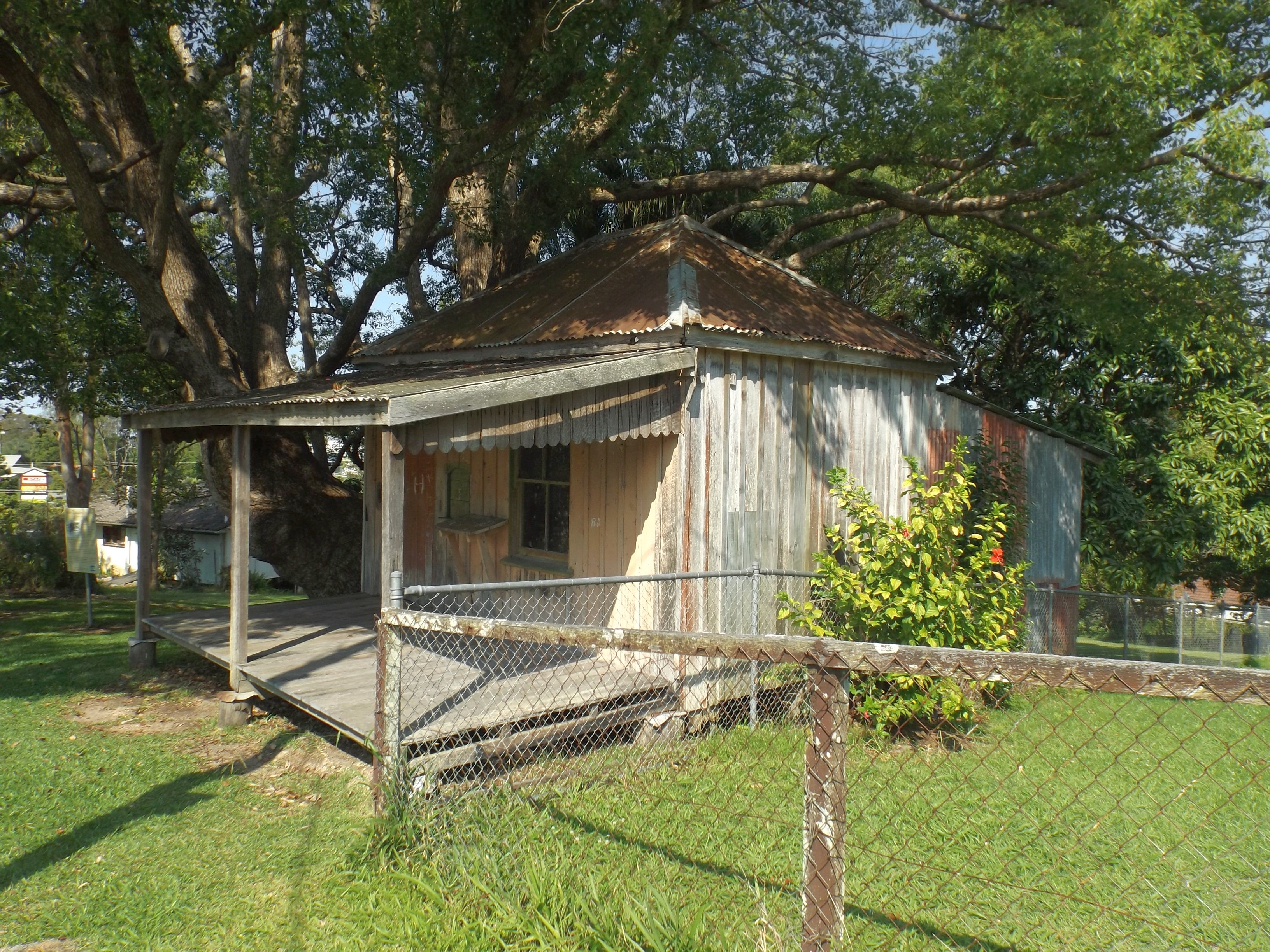 Photo of Tallebudgera Post Office at Tallebudgera, Gold Coast City, Queensland, Australia.